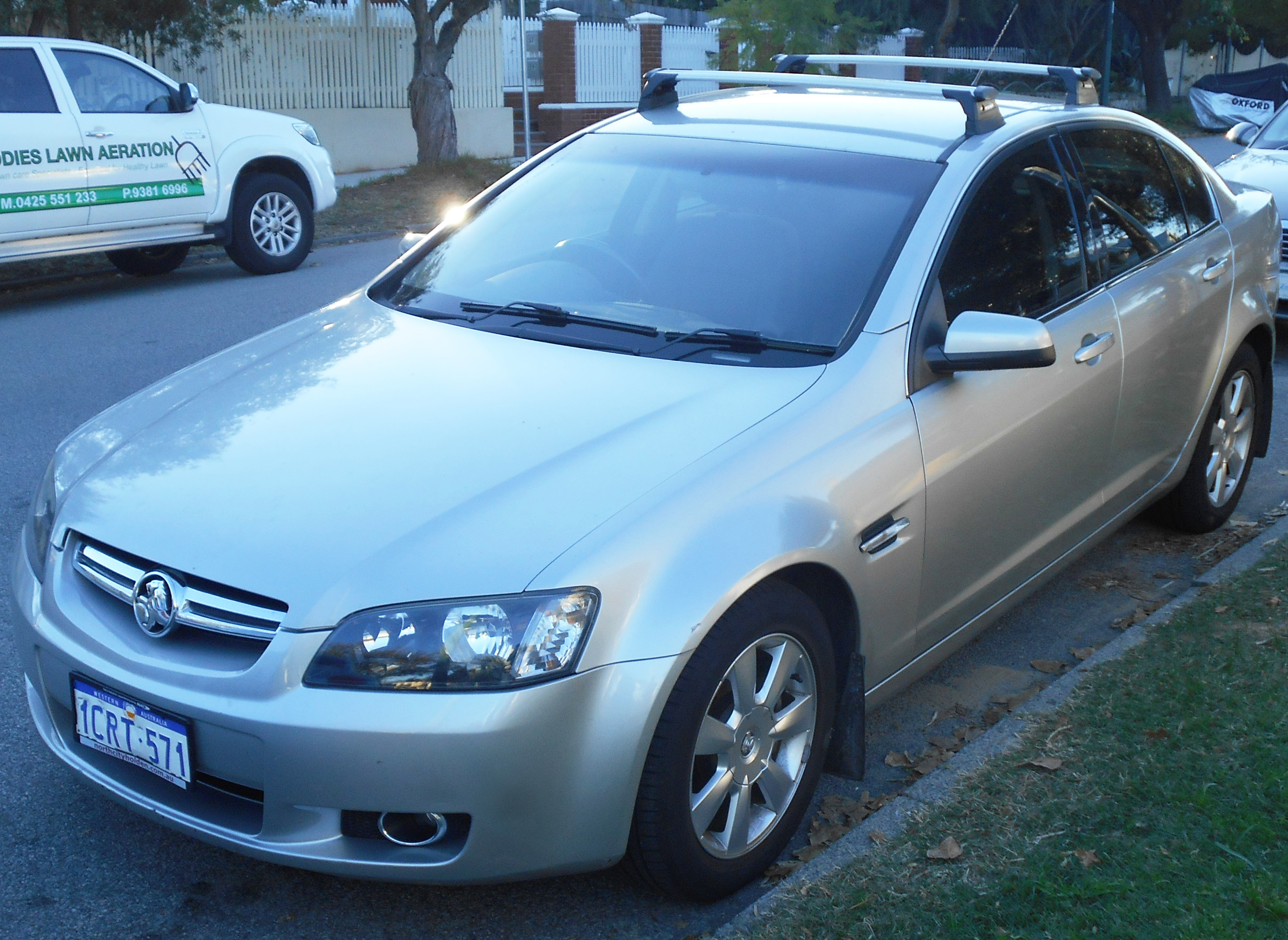 2007 Holden Berlina (VE MY07) sedan. Photographed in West Leederville, Western Australia Australia